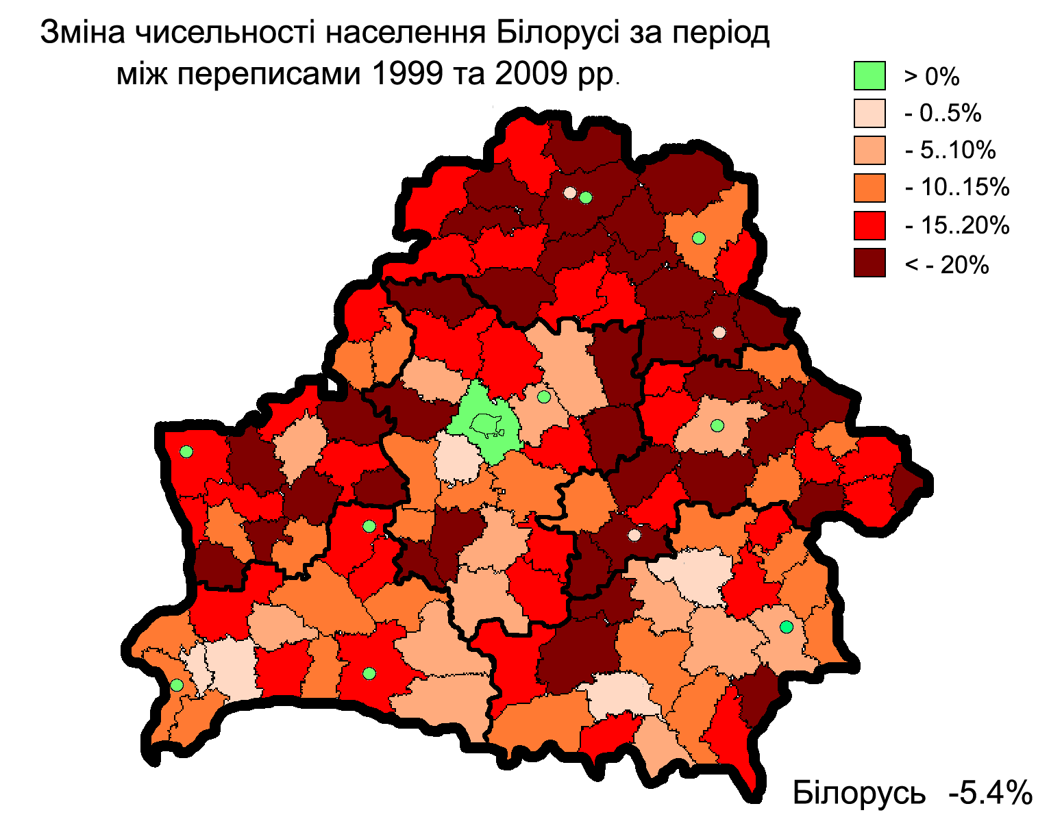 Belarusian population change between 1999-02-16 (1999 Census) and 2009-10-14 (2009 Census).